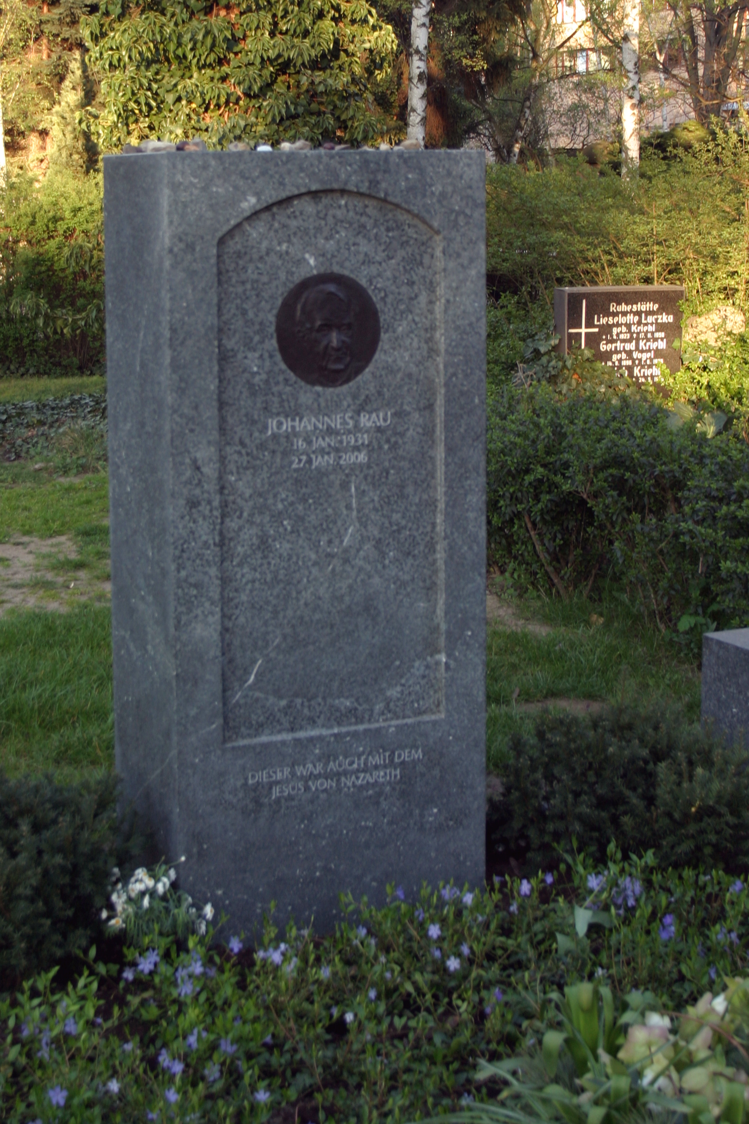 Grave of Johannes Rau on the "Dorotheenstädtischer Friedhof" (cemetery in Berlin).